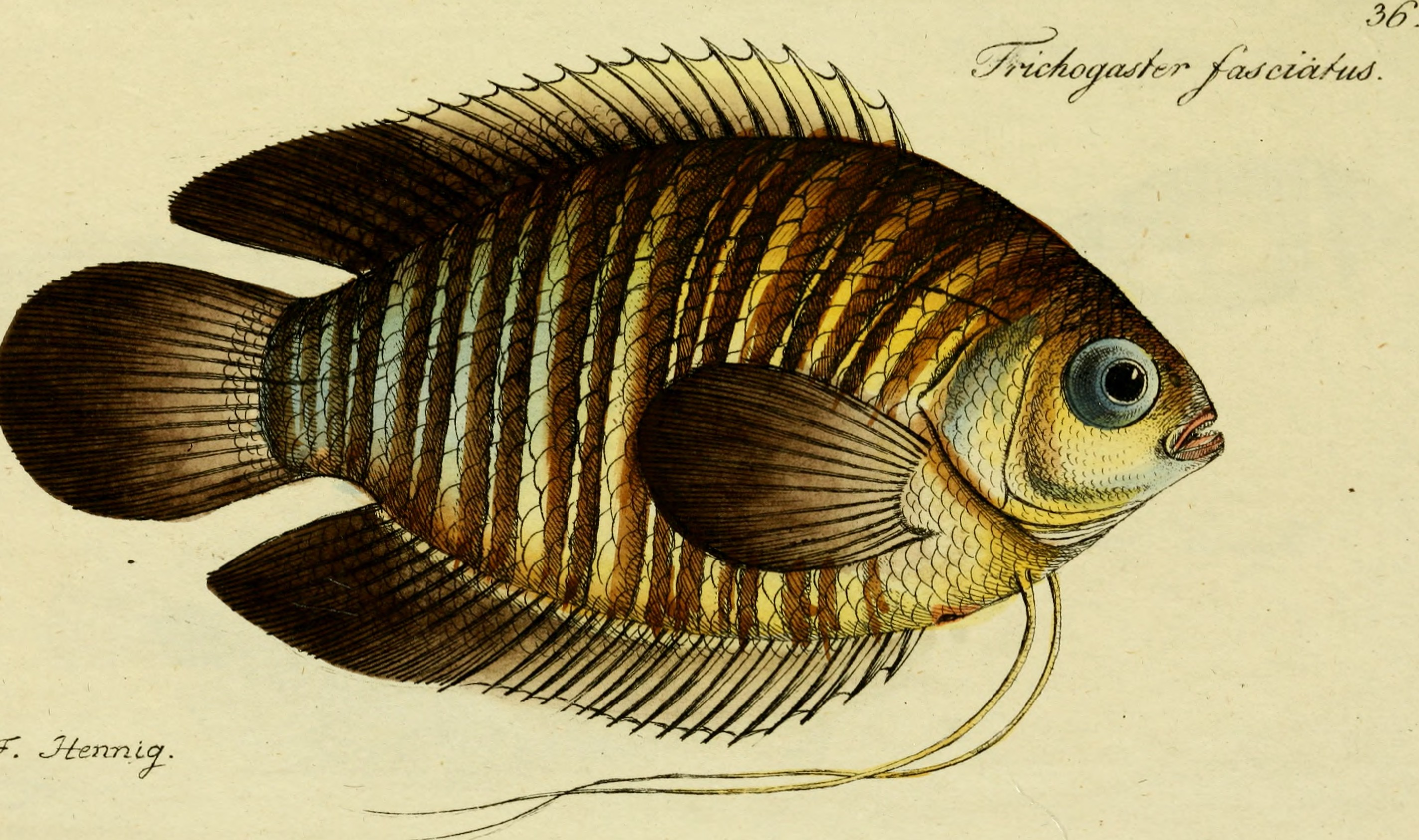 Title: M.E. Blochii ... Systema ichthyologiae iconibus CX illustratum Year: 1801 (1800s) Authors: Bloch, Marcus Elieser, 1723-1799 Schneider, Johann Gottlob, 1750-1822, ed Hennig, J. F. (Johann Friedrich), b. ca. 1778 Subjects: Fishes Ichthyology Publisher: Berolini : Sumtibus auctoris impressum et Bibliopolio Sanderiano commissum Text Appearing Before Image: ' Text Appearing After Image: ^